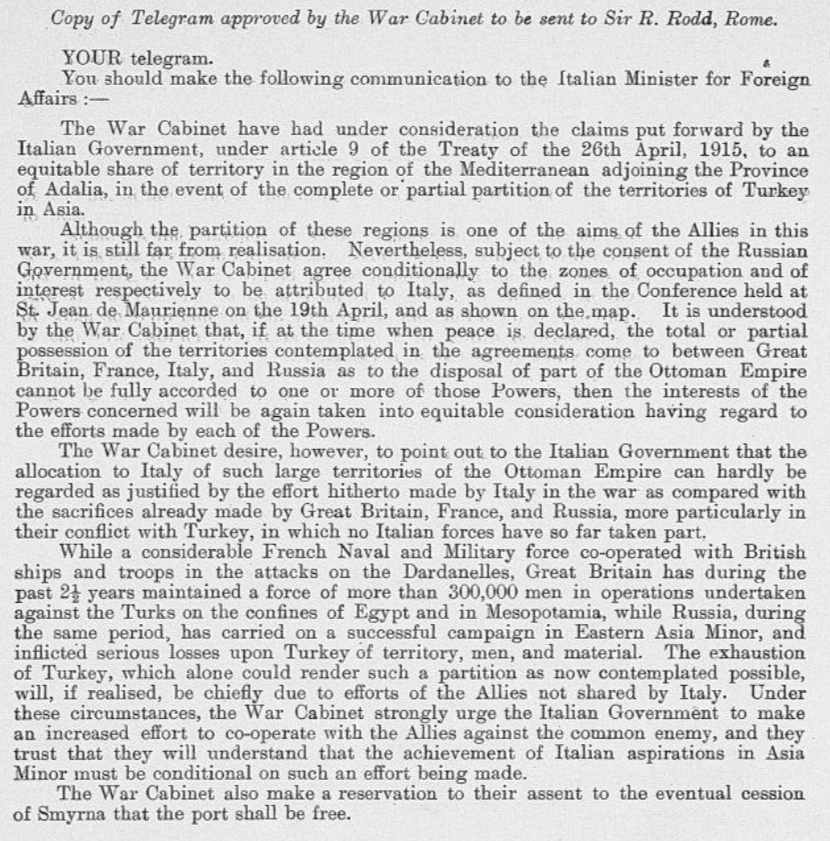 Minutes of a Meeting of the War Cabinet held at: 10 Downing-Street, Wednesday, April 25, 1917 From CAB/23/2 [1]